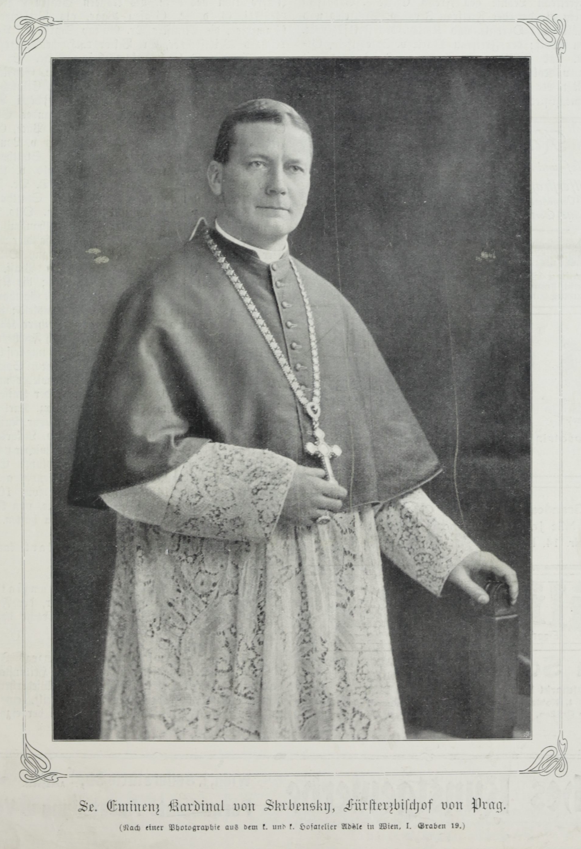 Lev Skrbenský z Hříště (1863–1938), Archbishop of Prague